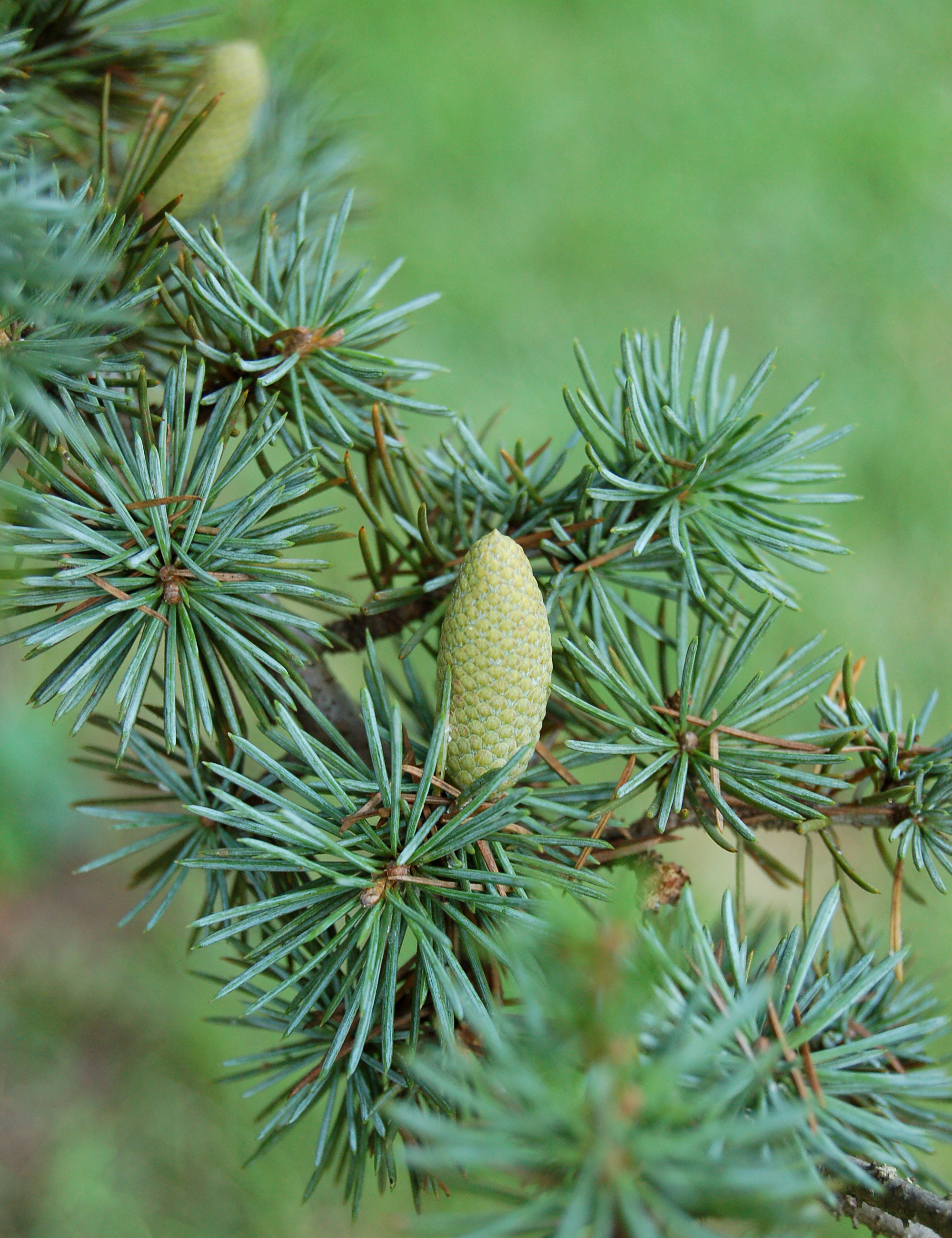 Photograph of sprig of an Atlas Cedaren ( Cedrus libani subsp. atlantica en 'Glauca') showing a young pollen cone. Photo taken at the Tyler Arboretum where it was identified.